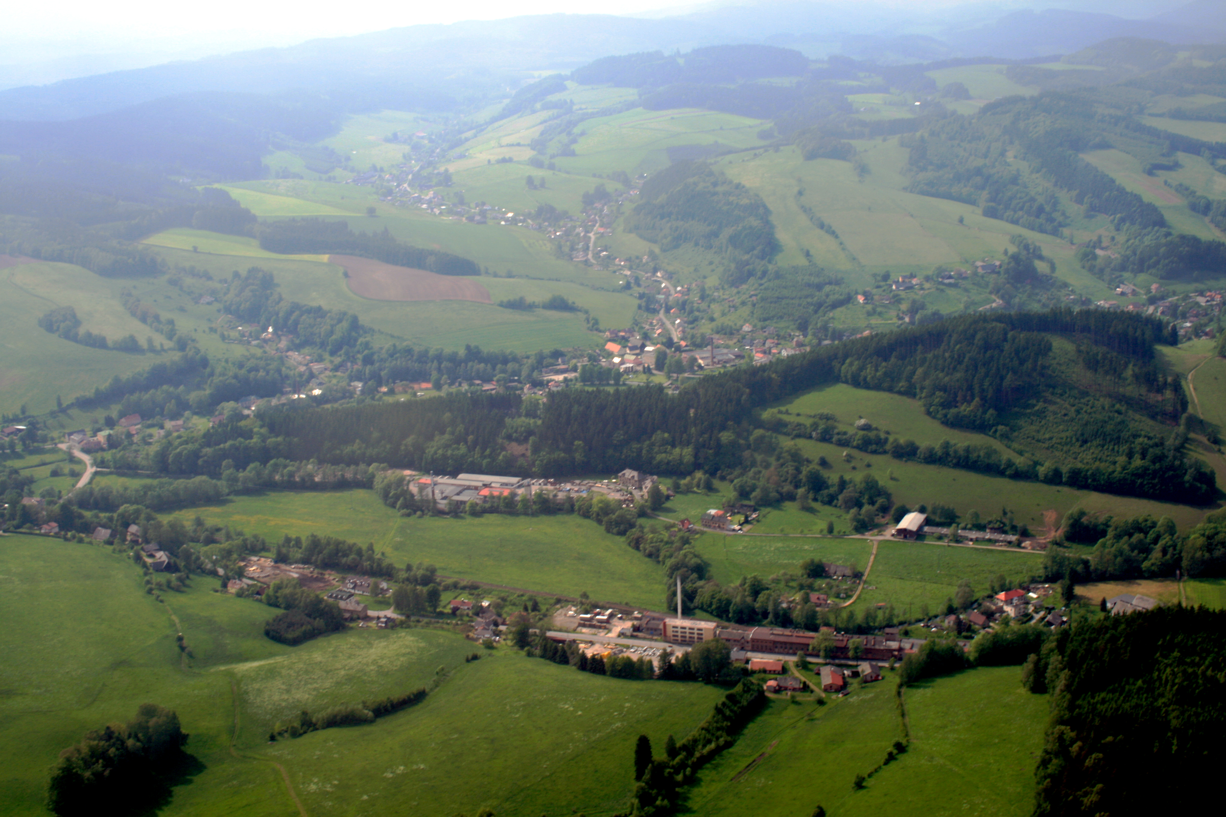 Small villages Žabokrky and Velký Dřevíč, parts od town Hronov from air, eastern Bohemia, Czech Republic